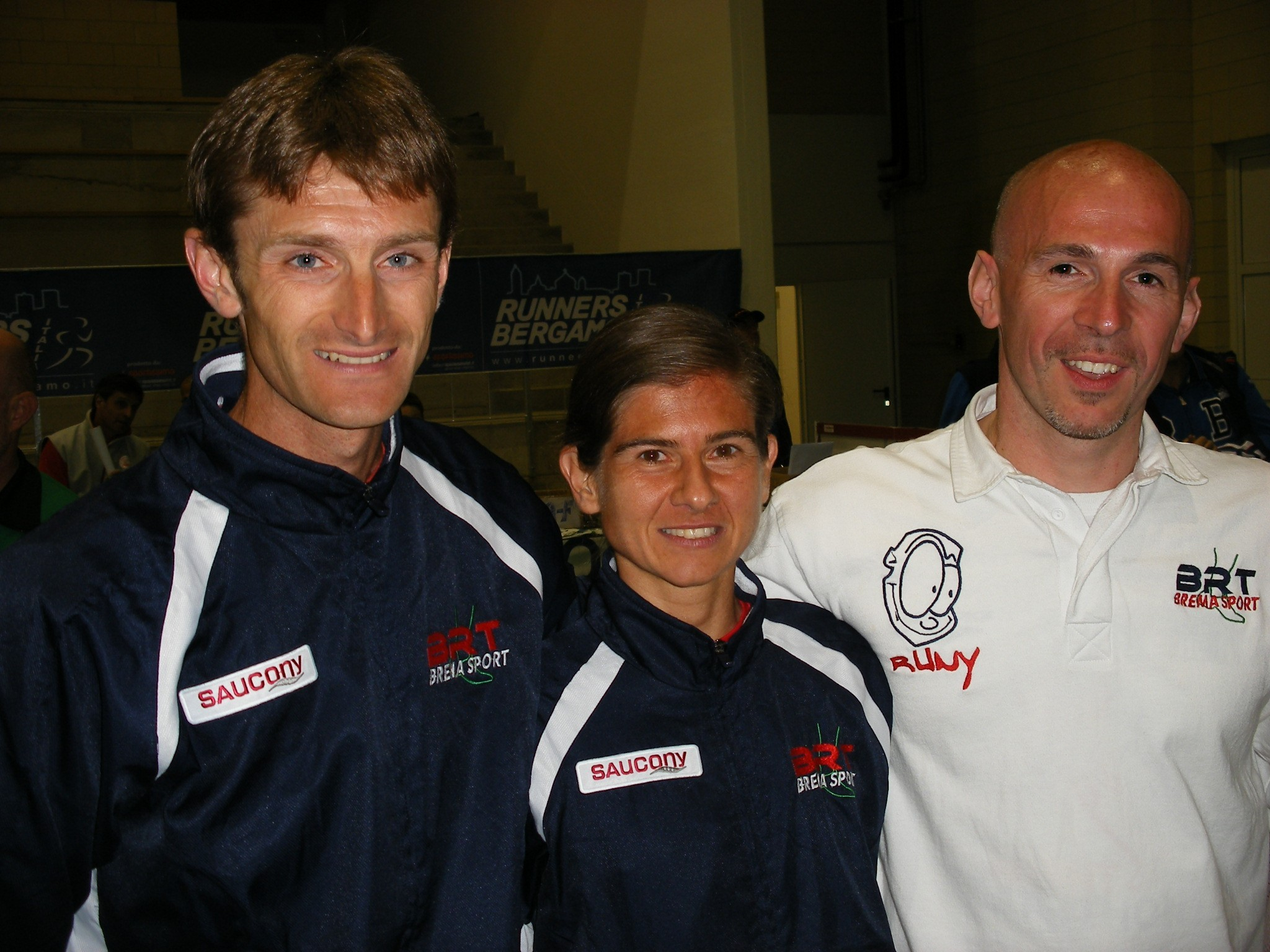 Monica Carlin, Marco Boffo